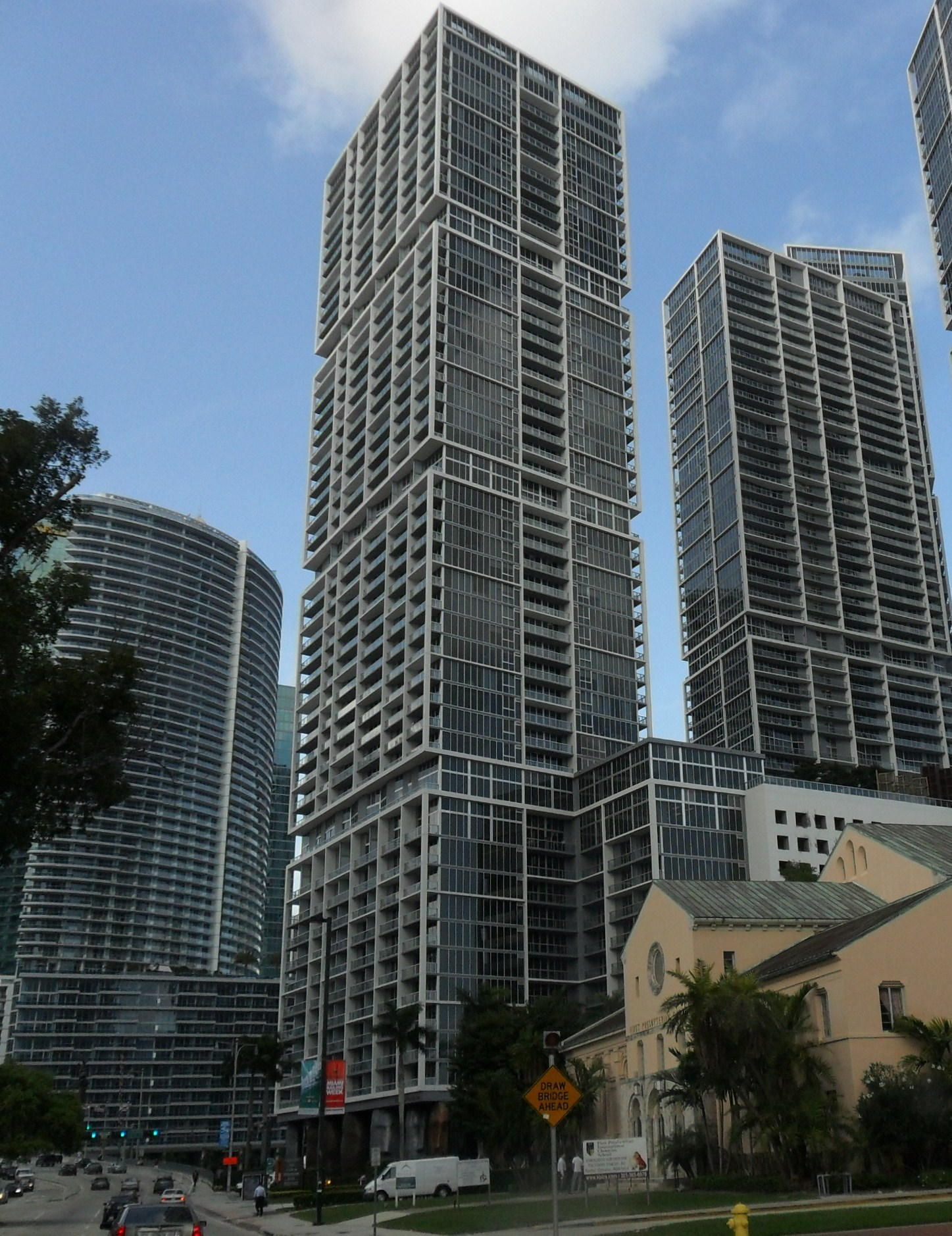 Viceroy Hotel & Spa Tower, part of Miami's Icon Brickell complex.